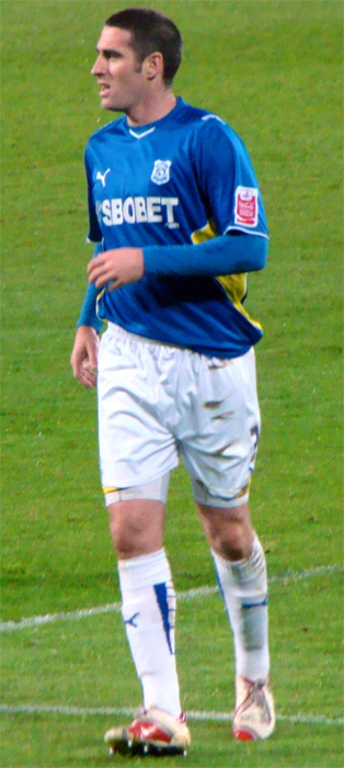 Cropped image of Mark Kennedy